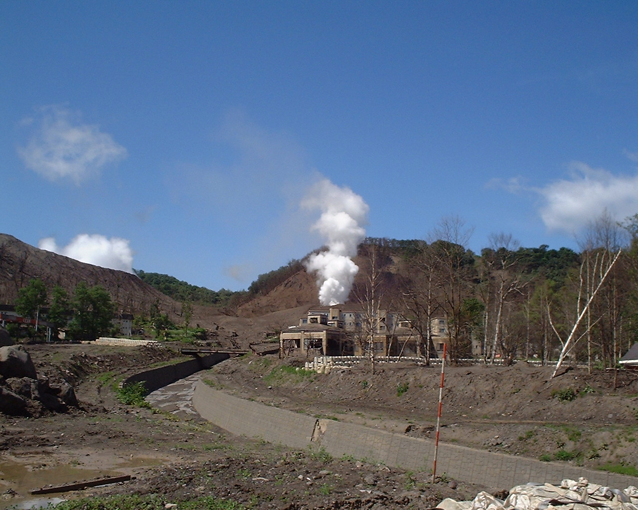 Mount Usu.